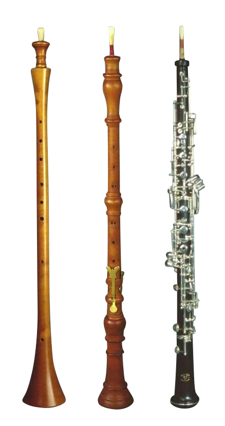 Three double-reed instruments with conical bored tubes: renaissance shawm, baroque oboe, modern oboe